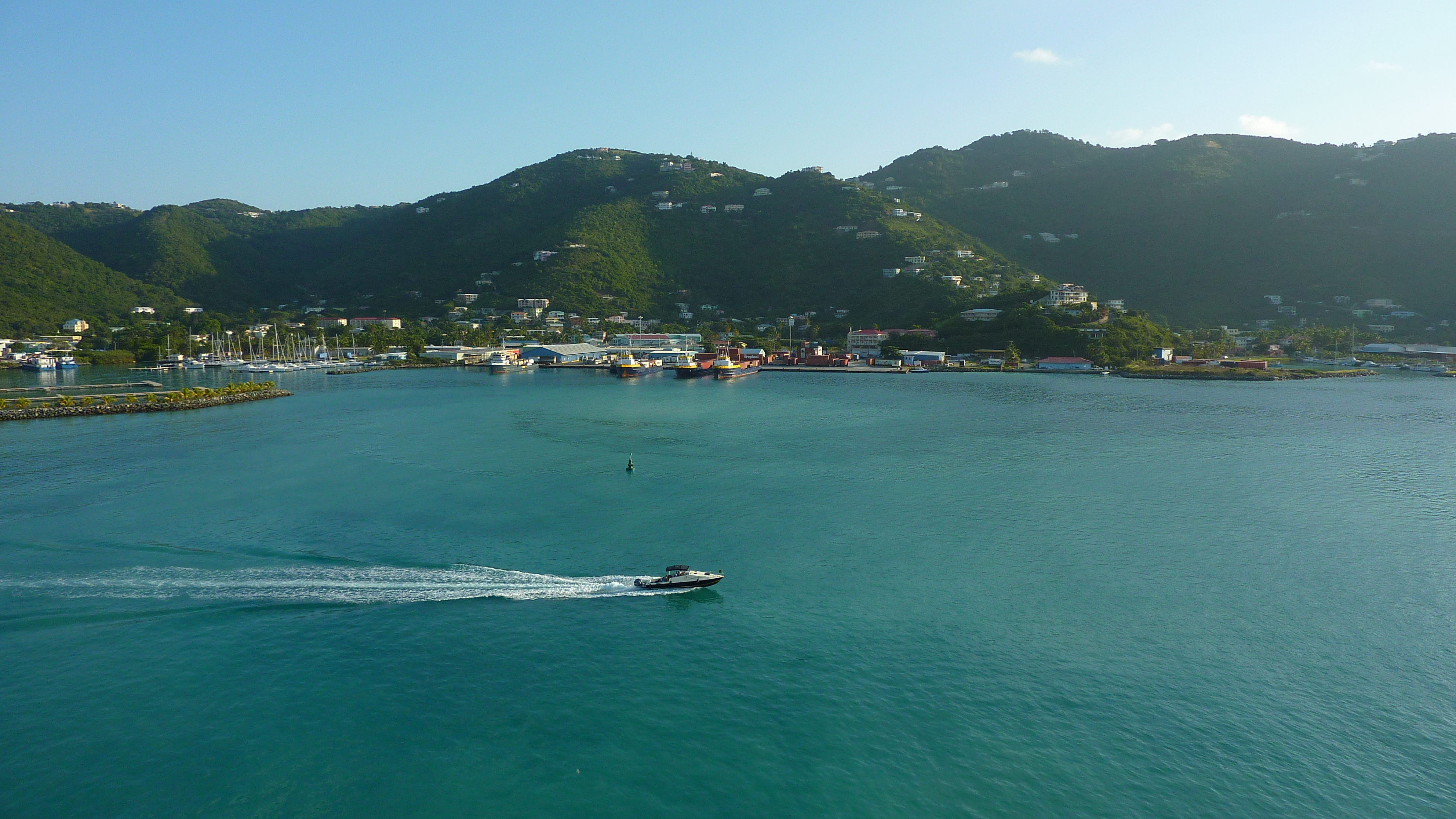 Road Town, Tortola BVI #2